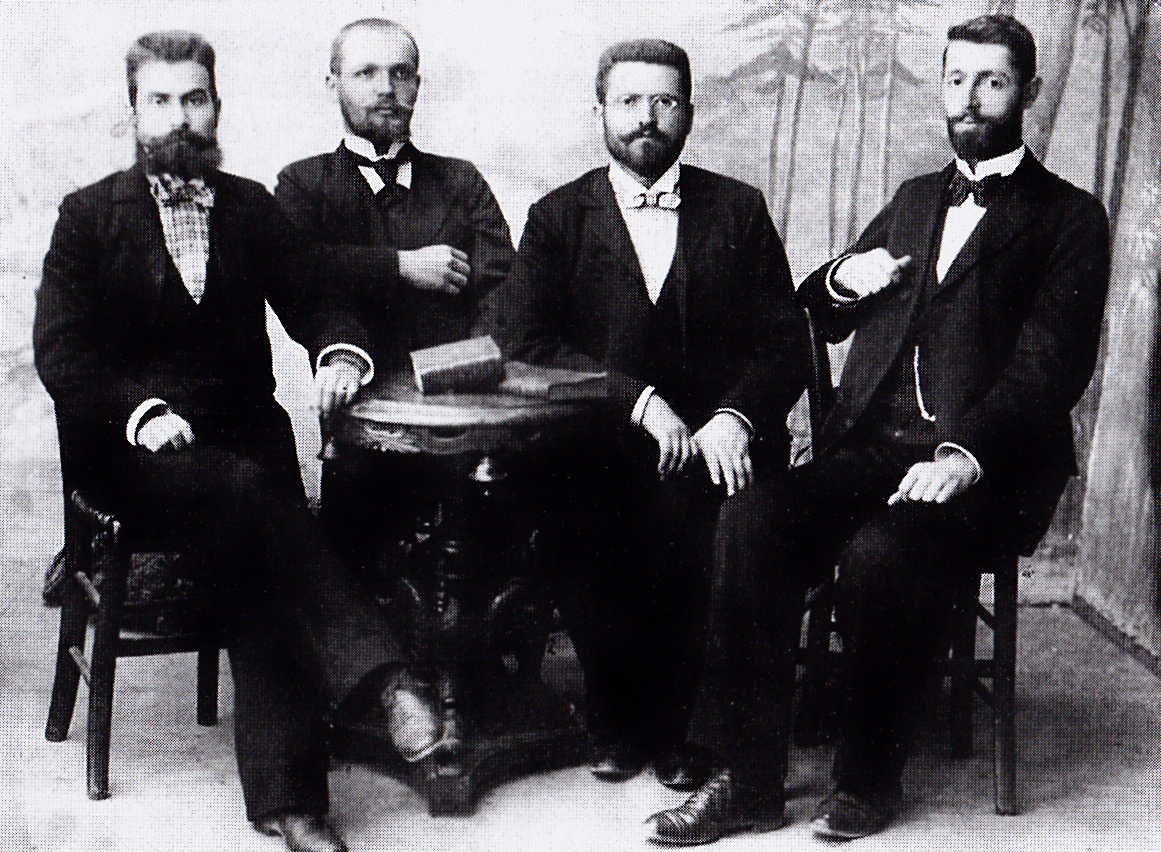 Vladimir Karamfilov with colegues